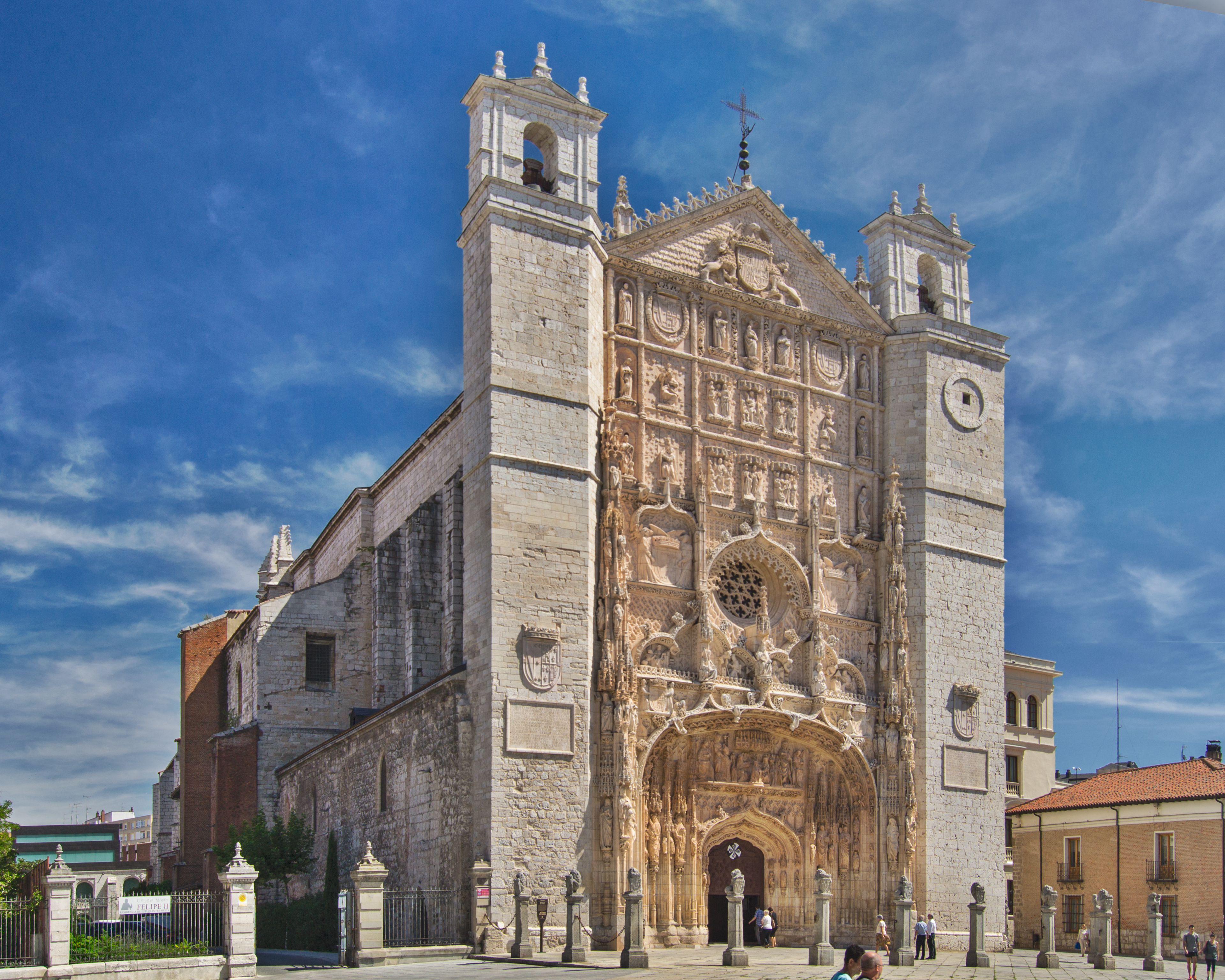 Church of San Pablo, in Valladolid, Castile and León, Spain.